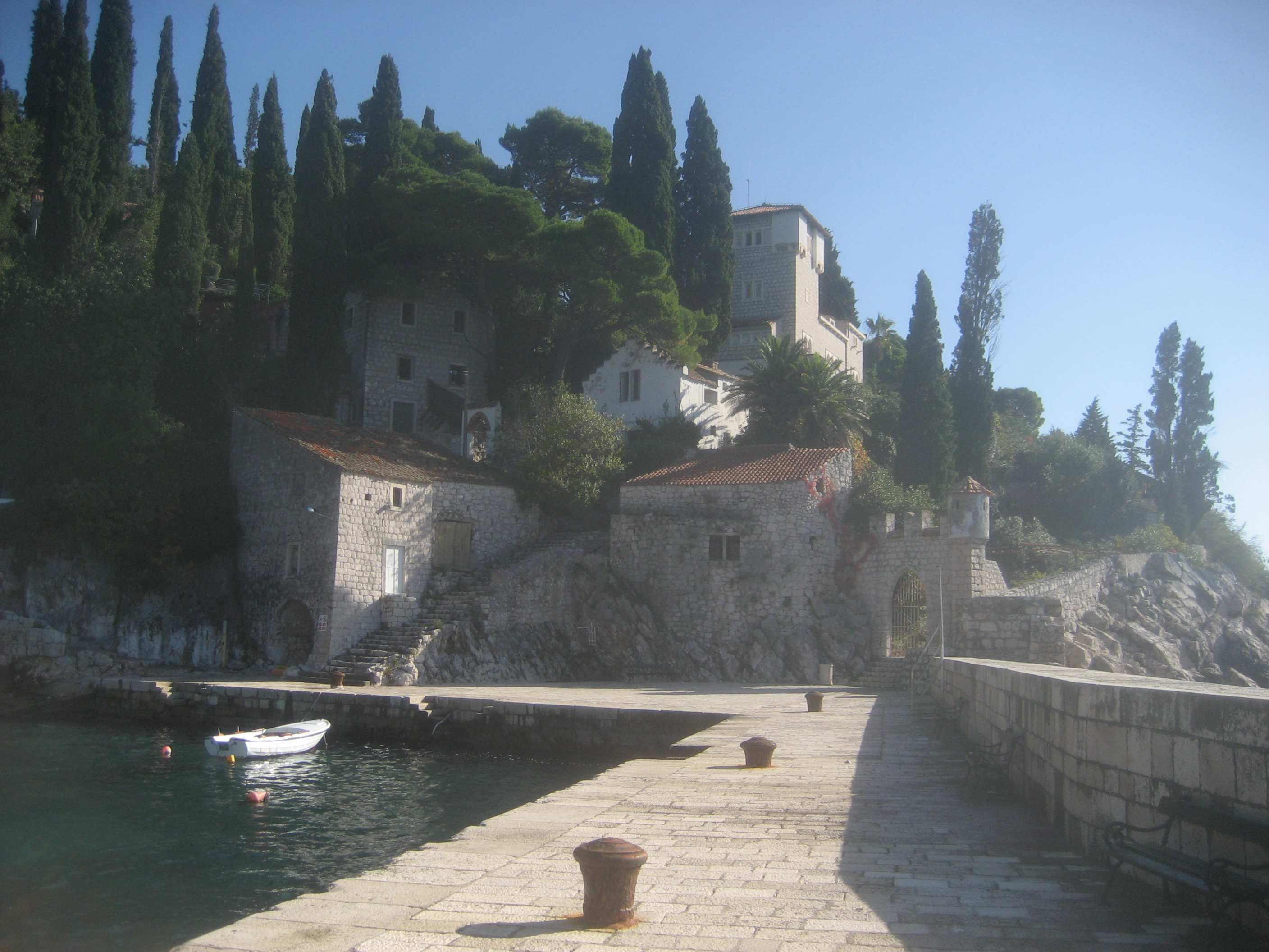 Trsteno, Croatia